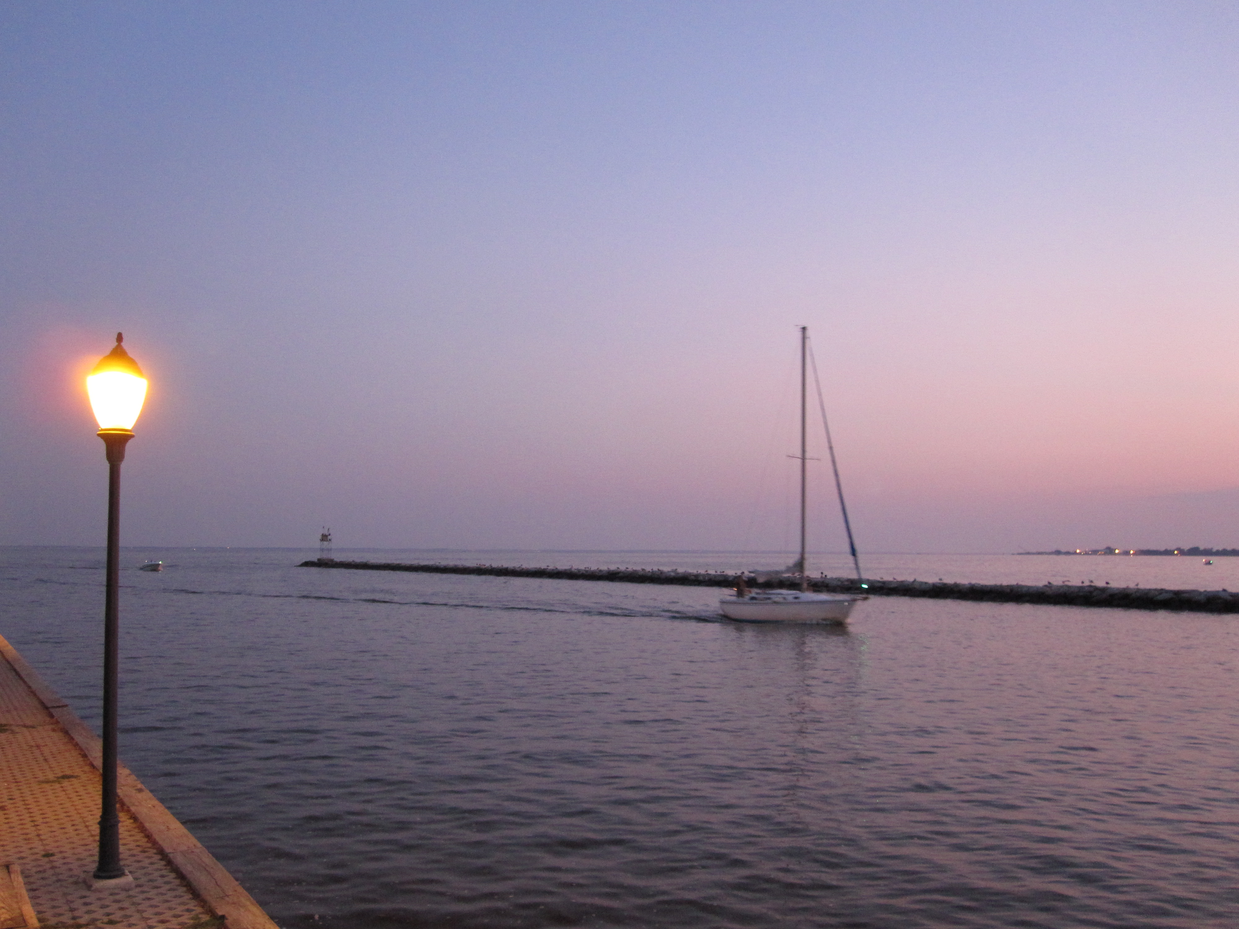 Sailboat entering the Patchogue River near the sandspit beach area